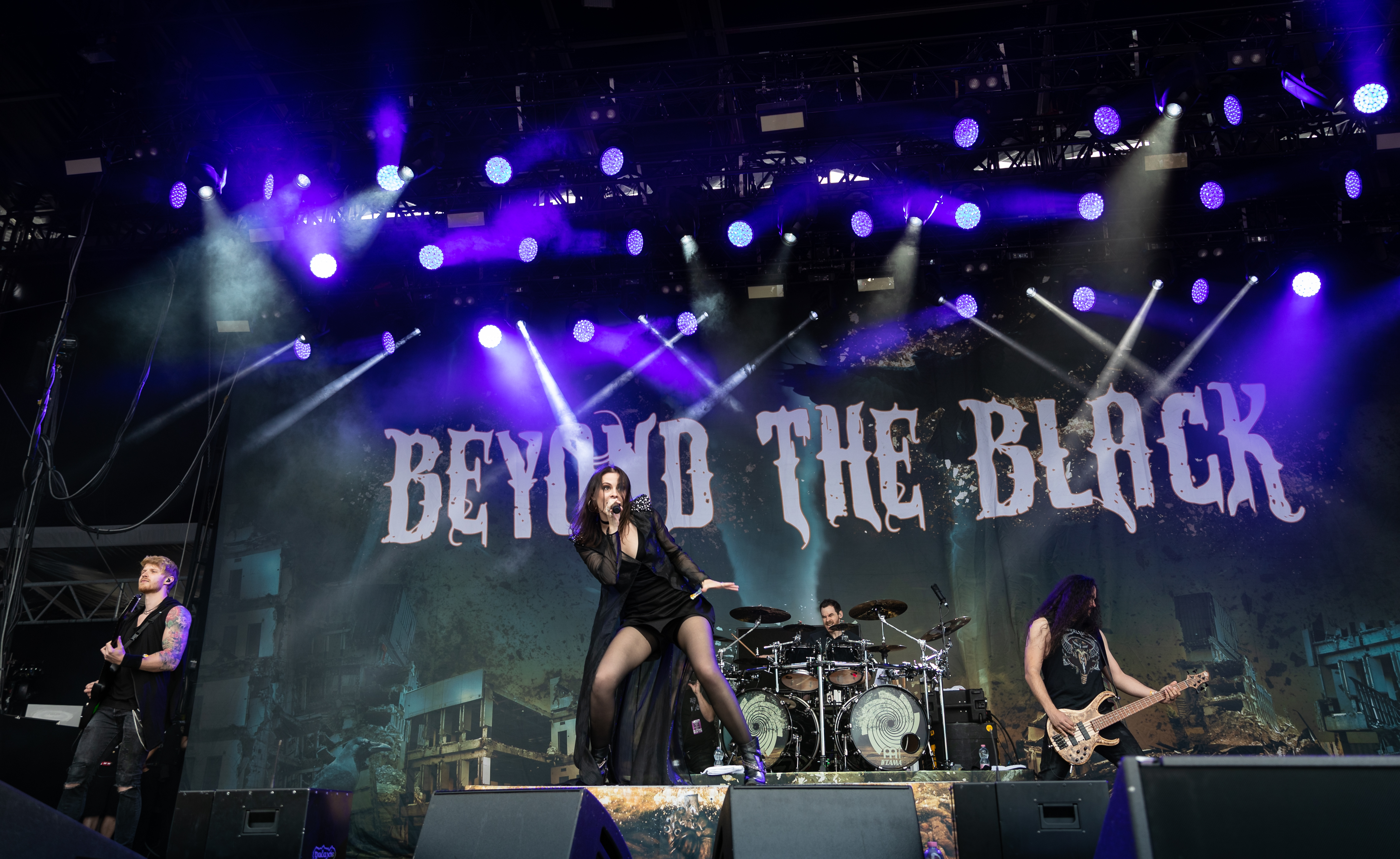 Beyond the Black - Rock am Ring 2019